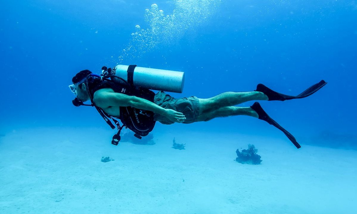 PADI Discover Scuba Diving in St. Croix, US Virgin Islands with N2theBlue Scuba Diving